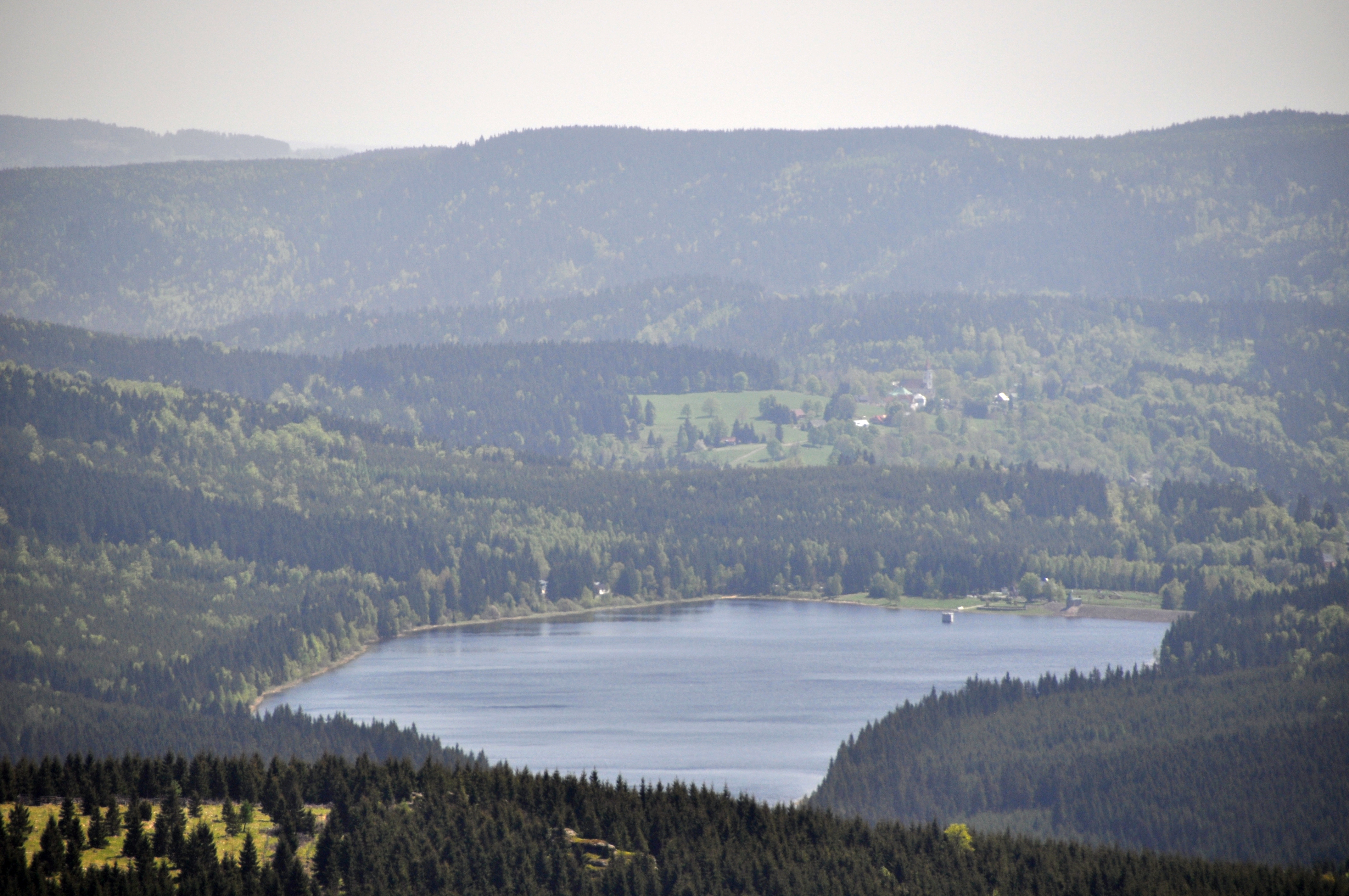 Souš Reservoir from Jizera mountain